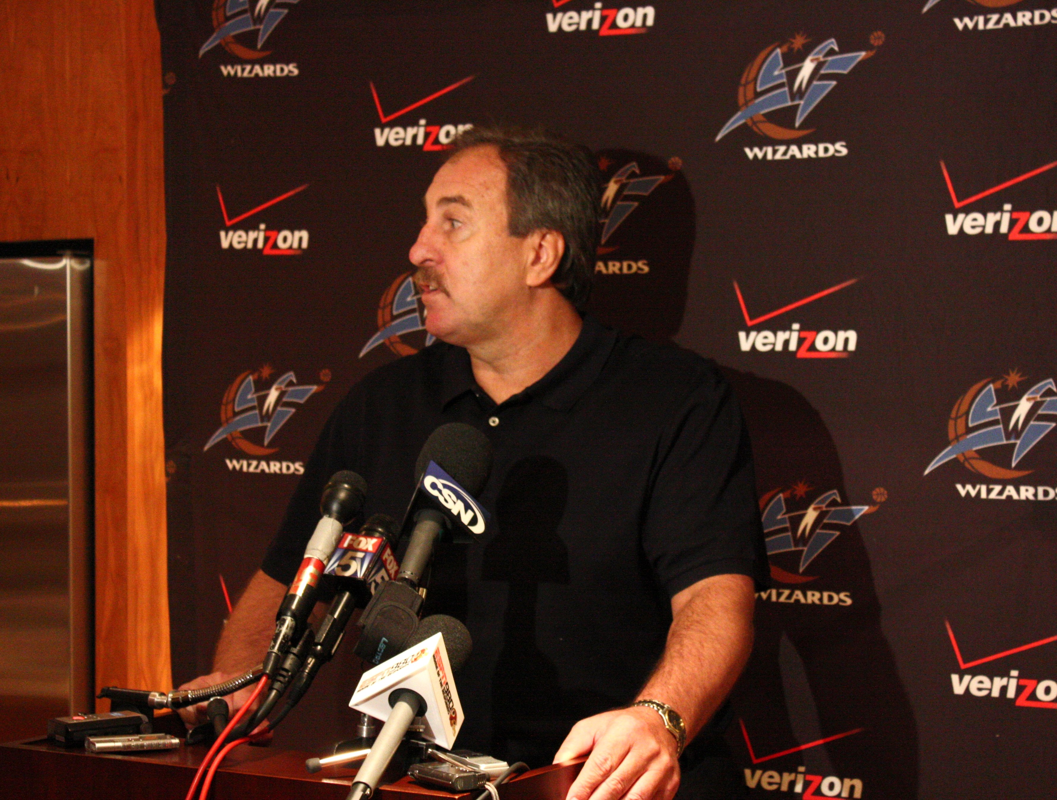 Ernest "Ernie" Grunfeld, the General Manager of the Washington Wizards